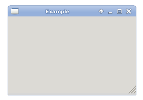 java-gnome GtkExample